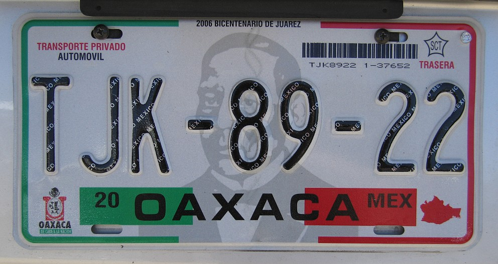 Number plate of the Oaxaca state, Mexico